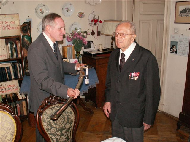 Stefan Wesołowski (1908-2009), Polish scientsist, professor dr med., surgeon urologist, co-founder of Polish urology, founder member of Polish Urological Society and the European Association of Urology and Janusz Krupski (1951-2010), Polish historian and politician.